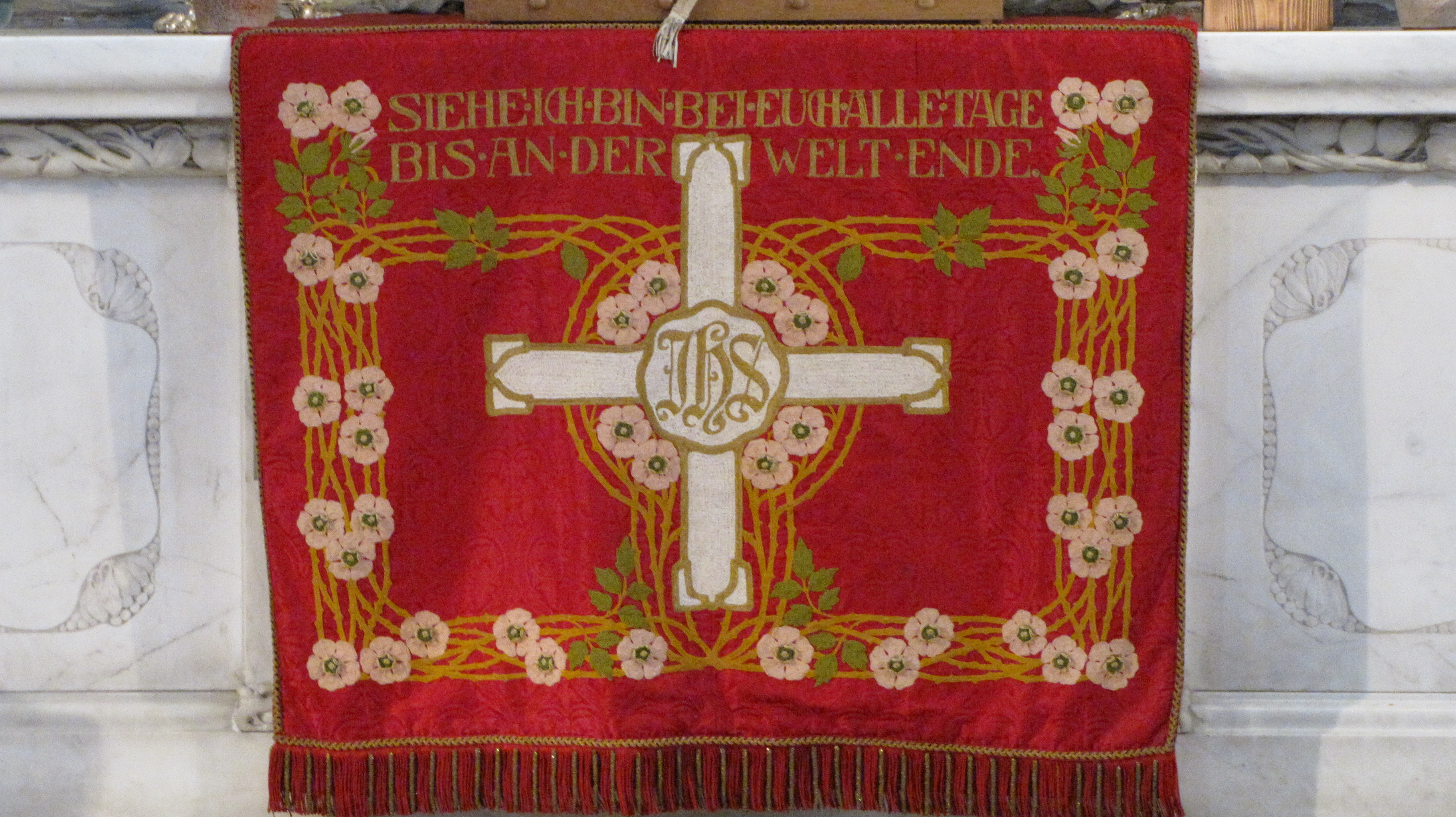 Red antependium of the Kreuzkirche, Dresden